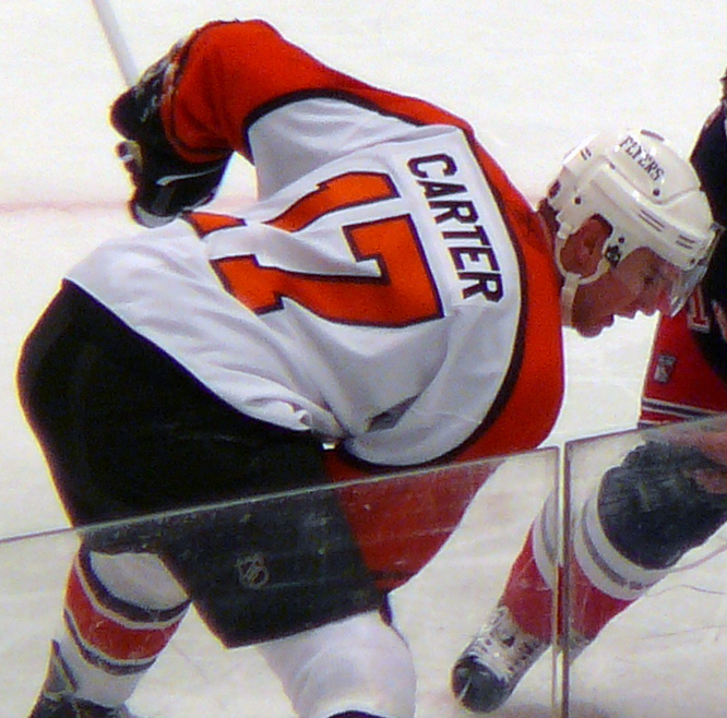 Jeff Carter of the Philadelphia Flyers during the 2006-07 season against the New York Rangers.